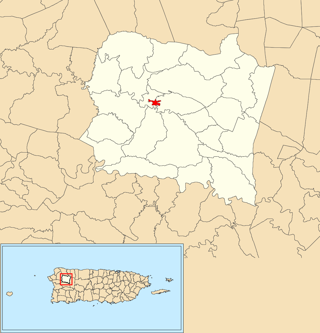 San Sebastián barrio-pueblo, San Sebastián, Puerto Rico locator map